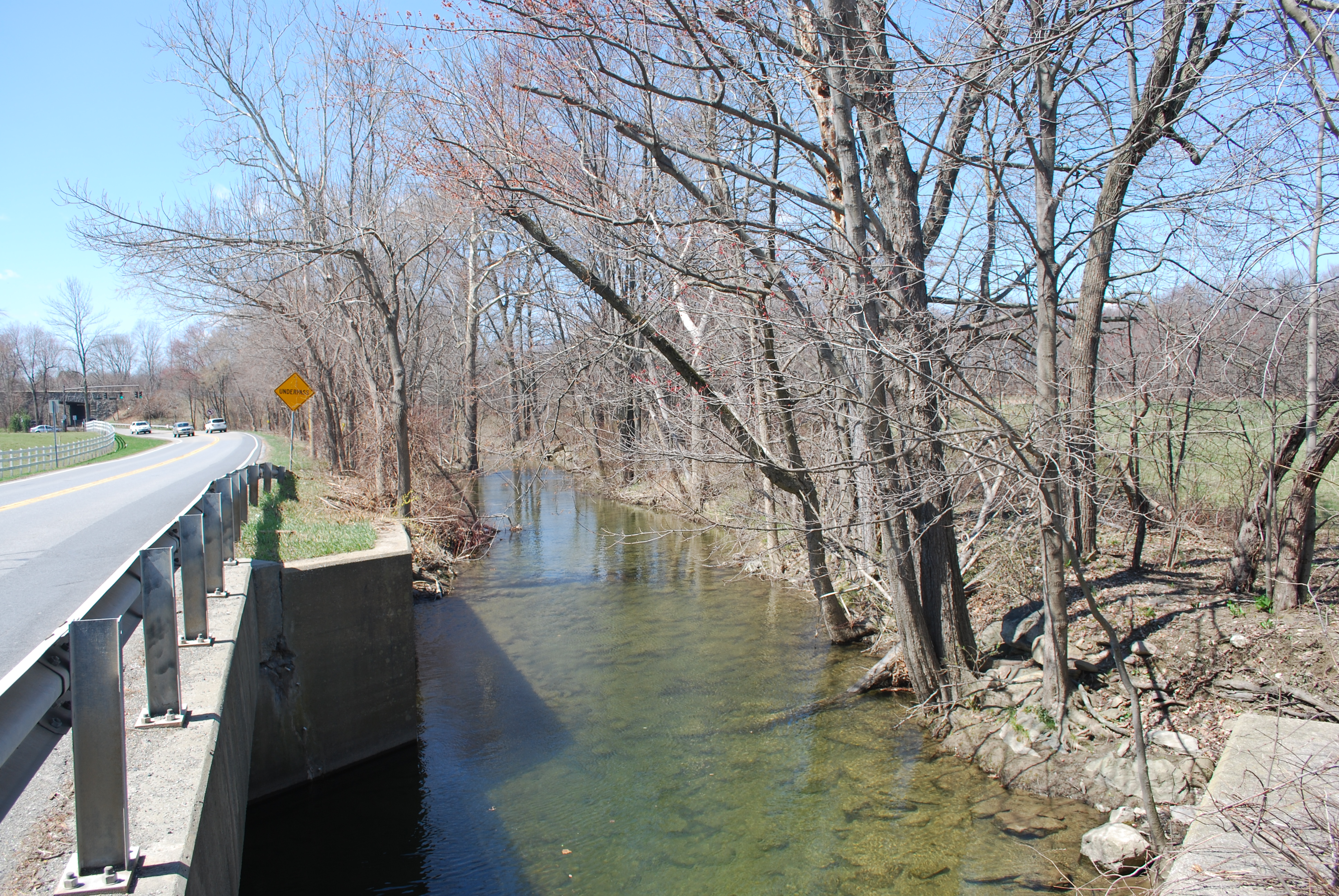 Jackson Creek off of Noxon Road (CR 21) in Lagrangeville, NY.